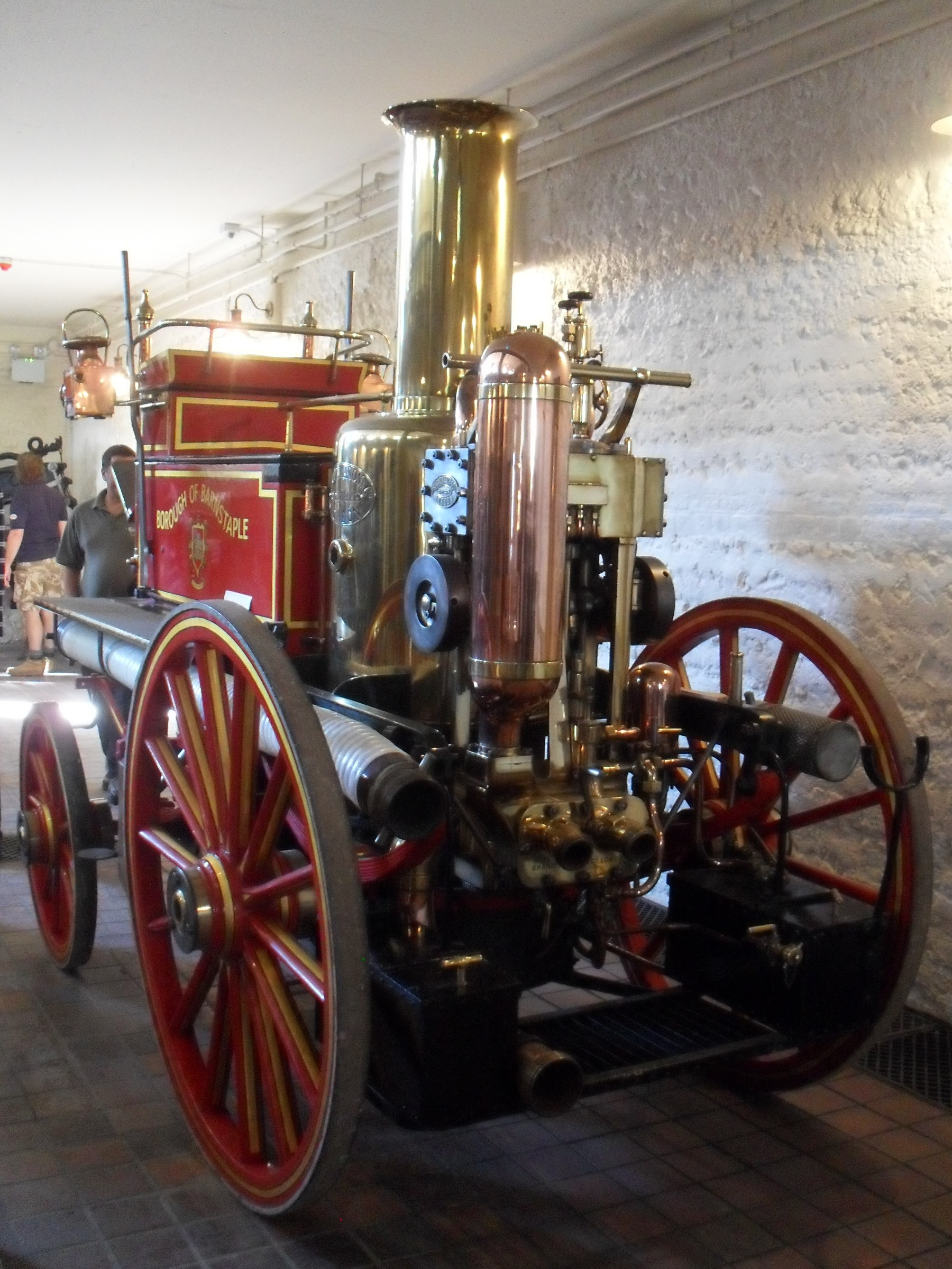 The 1890 Shand Mason & Co. Ltd. vertical twin-cylinder steam-powered fire engine at the British Engineerium, The Droveway, West Blatchington, Hove, City of Brighton and Hove, England. This was owned by teh Borough of Barnstaple.